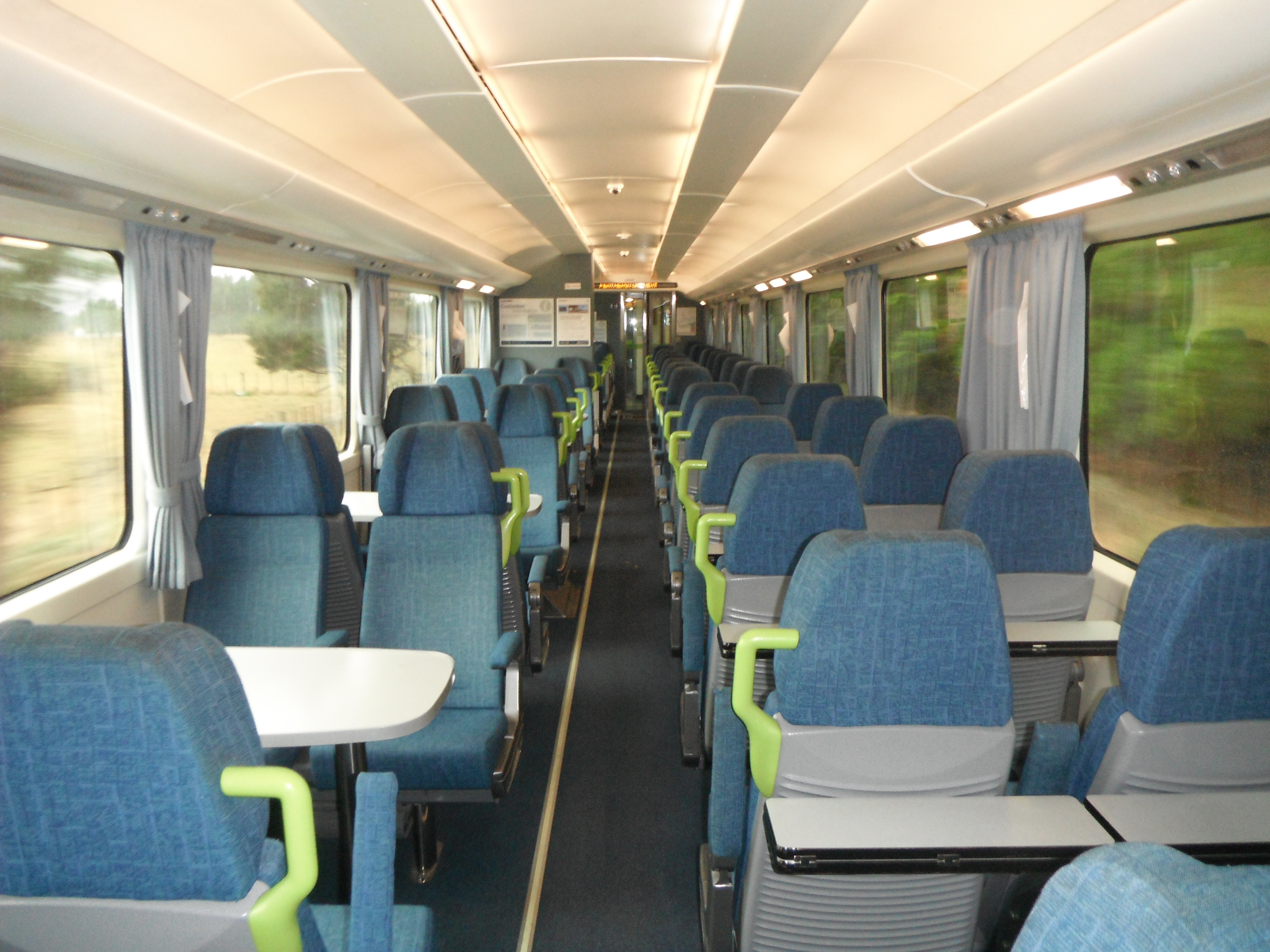 The interior of New Zealand British Rail Mark 2 carriage SW 5658, used on the Wairarapa Connection services between Wellington and Masterton.